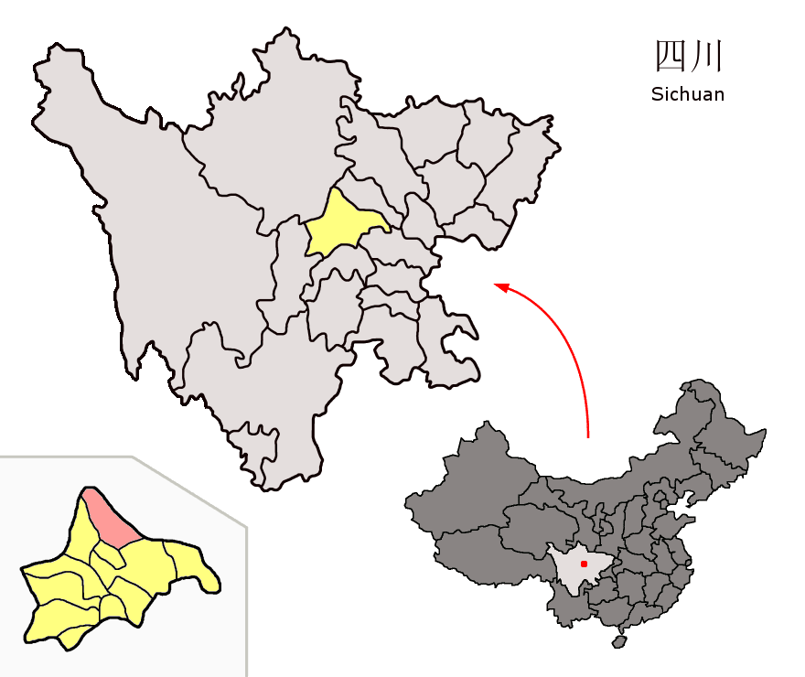 Location of Pengzhou City (pink) and Chengdu Prefecture (yellow) within Sichuan province of China Map drawn in september 2007 using various sources, mainly : Sichuan province administrative regions GIS data: 1:1M, County level, 1990 Sichuan Counties map from